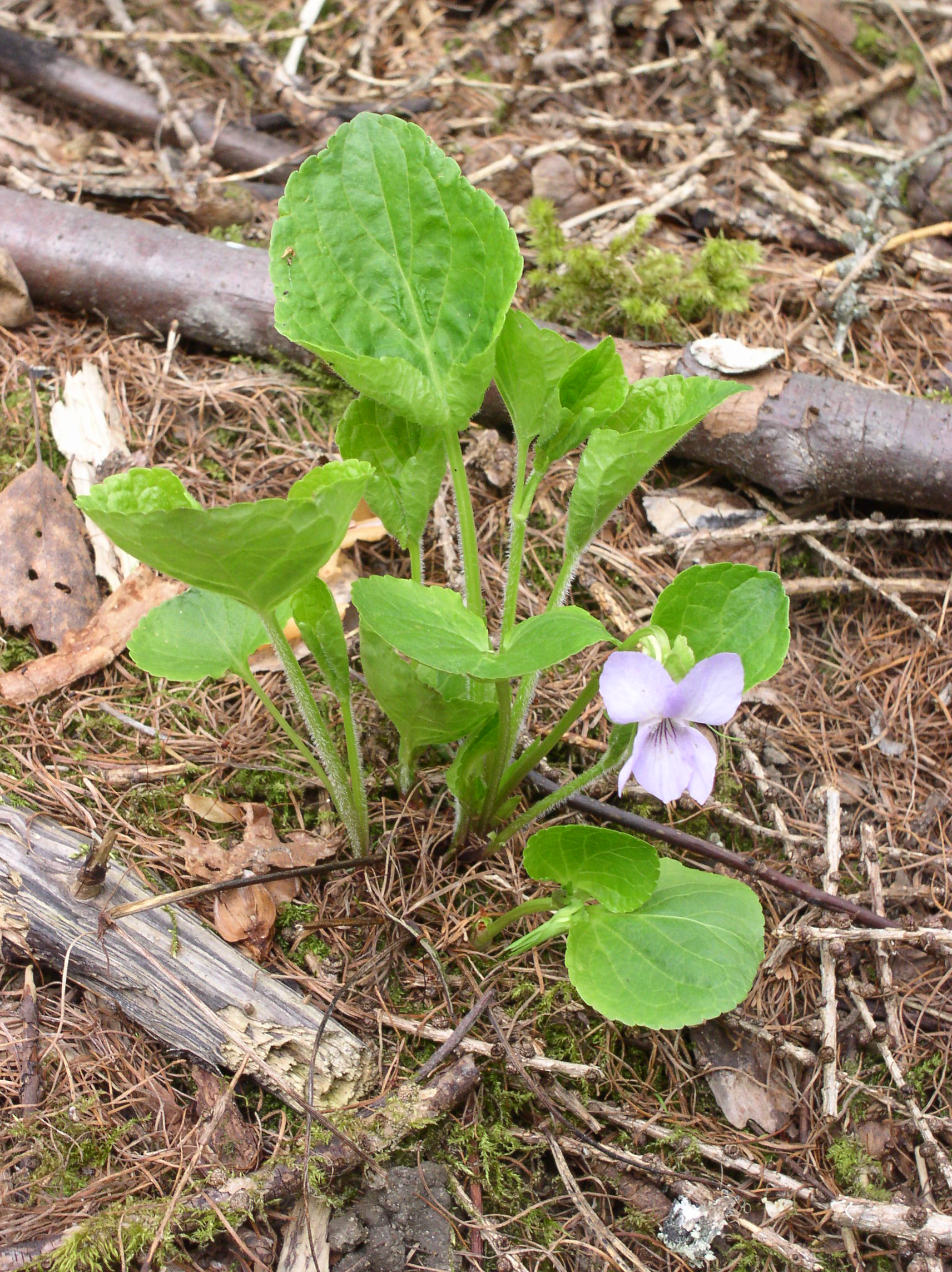 Viola mirabilis plant in Savonlinna, Finland.